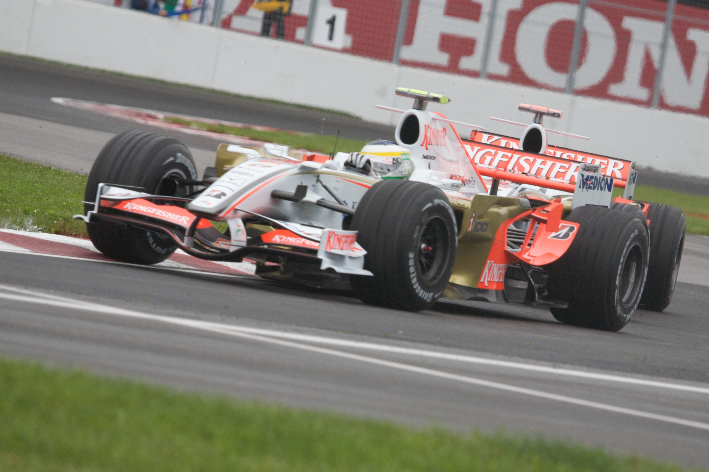 Force India at Canada 2008